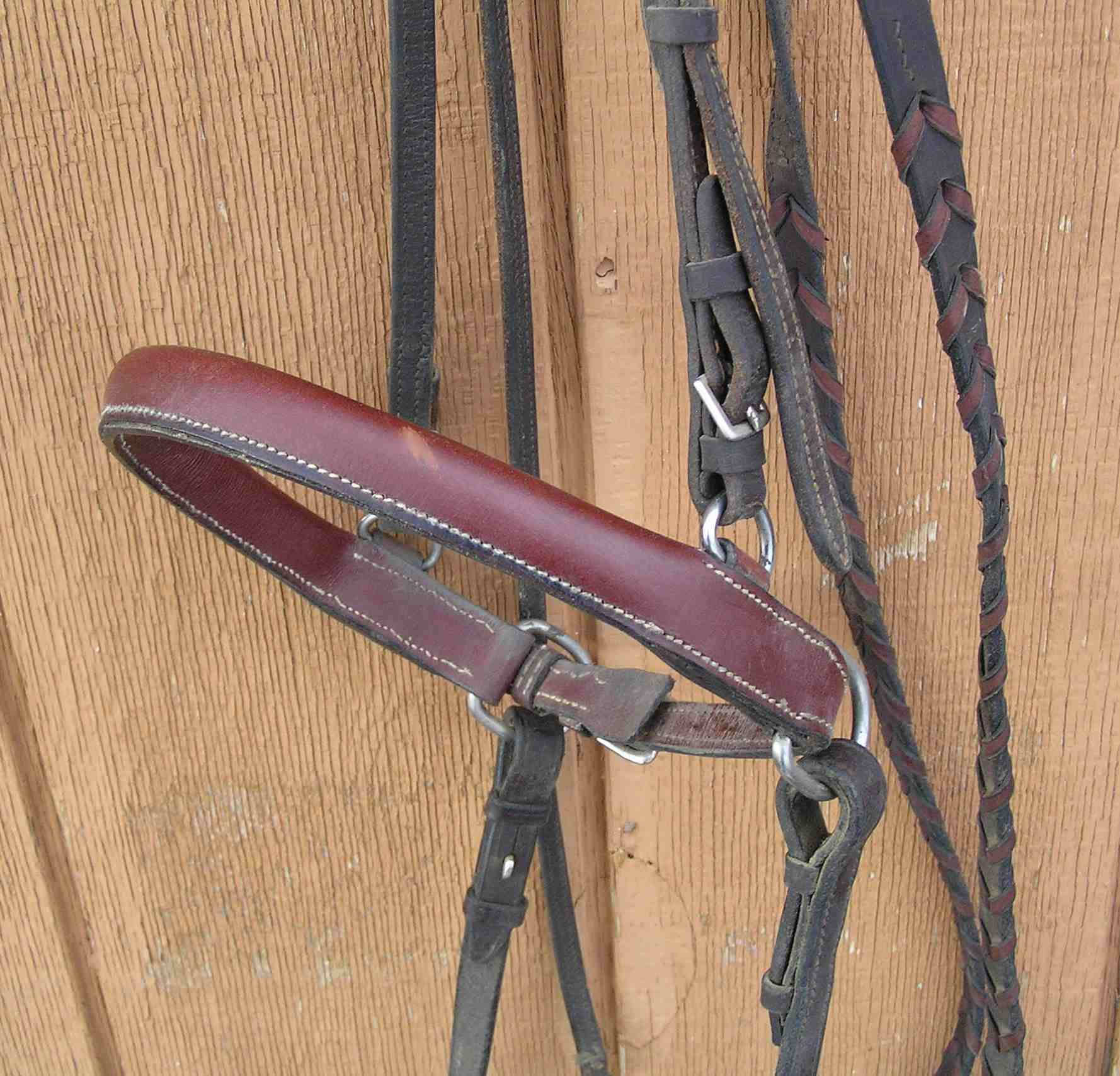 A Jumping Cavesson--a type of hackamore that allows a sport horse ridden in English style tack to be ridden without a bit in its mouth